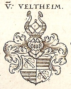 Coat of arms of the german family von Veltheim (Veltheim sächsisch)